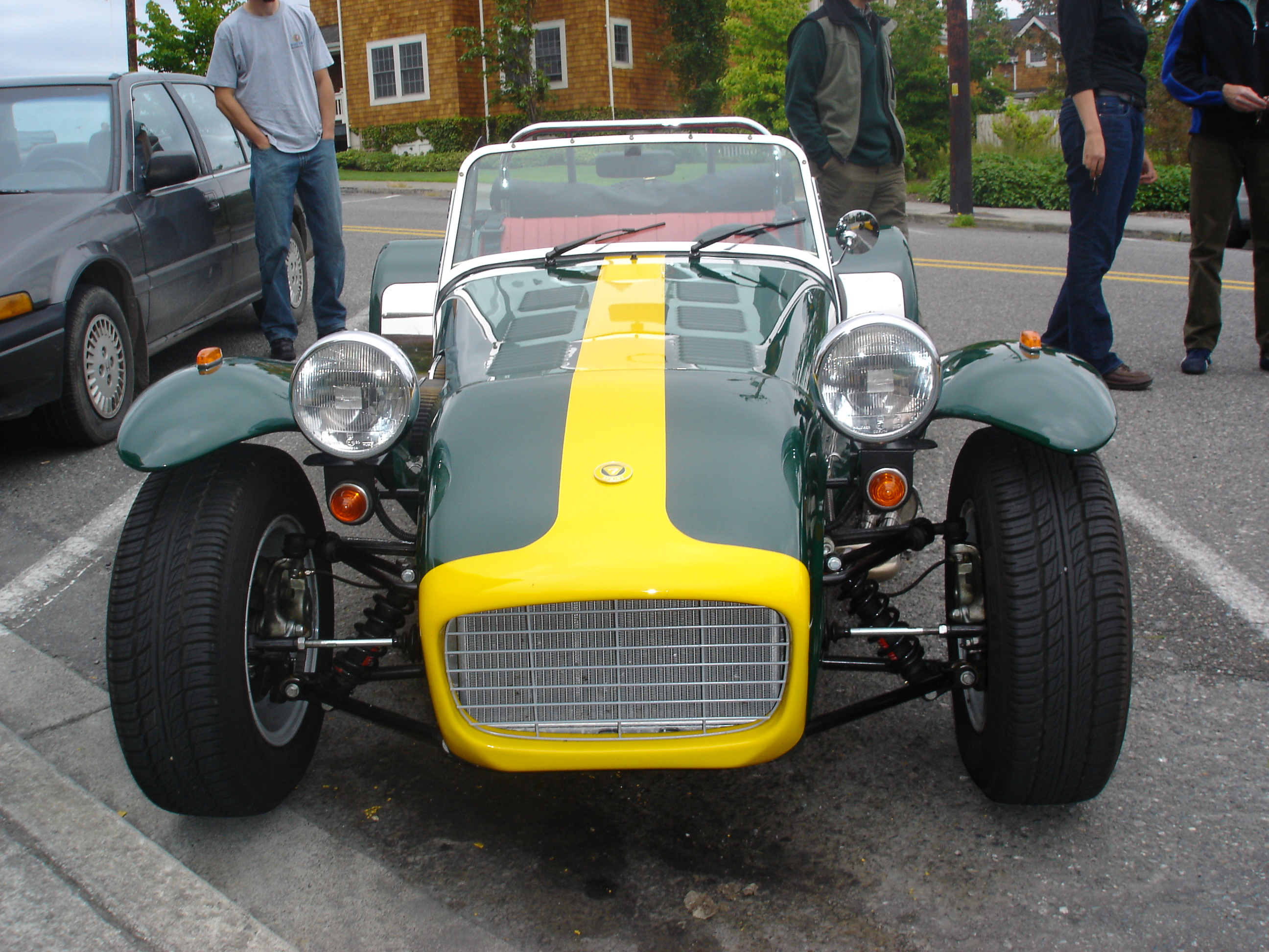 A Classic Caterham Taken by Riley S. (Riguy)